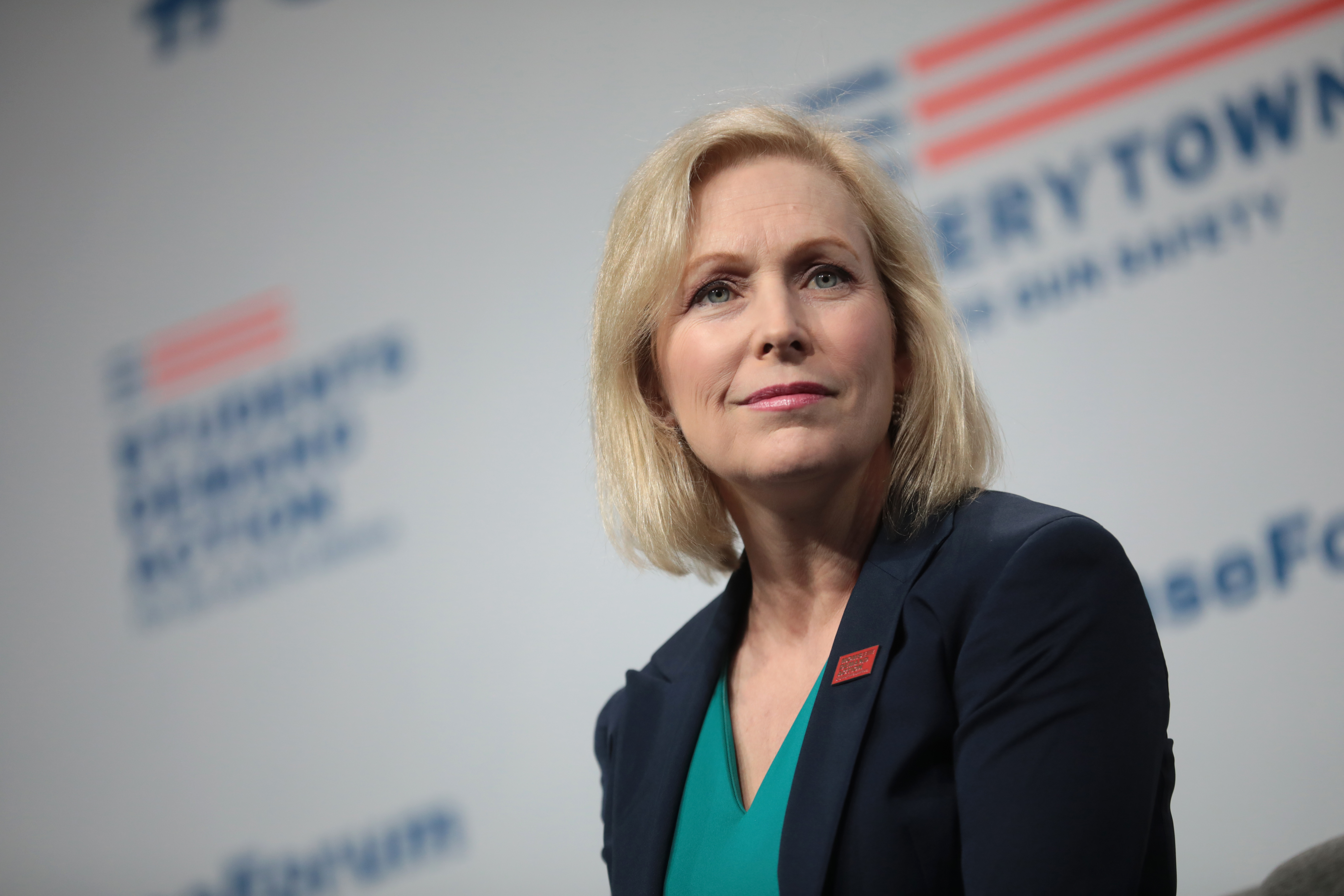 U.S. Senator Kirsten Gillibrand speaking with attendees at the Presidential Gun Sense Forum hosted by Everytown for Gun Safety and Moms Demand Action at the Iowa Events Center in Des Moines, Iowa.